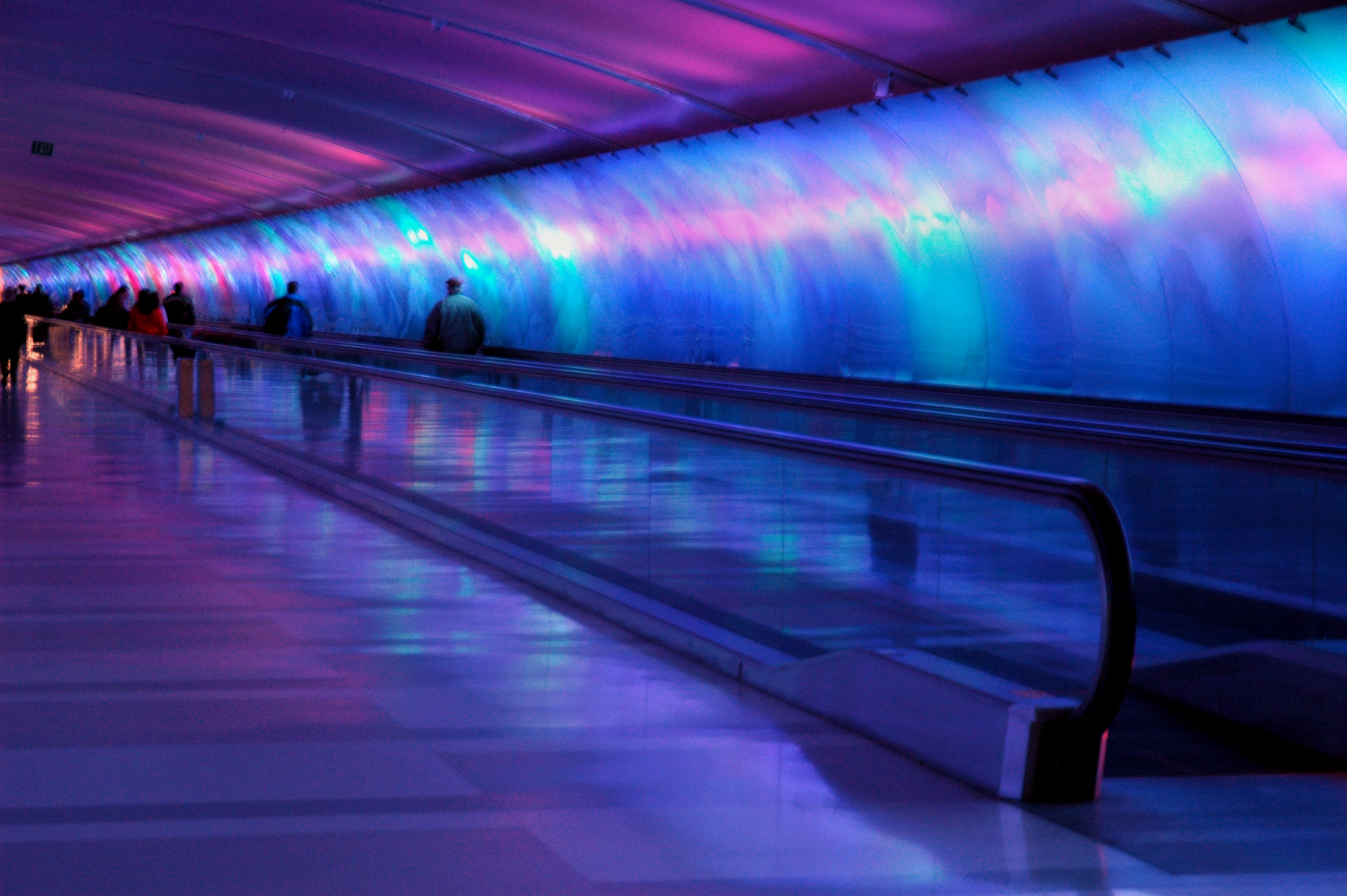 Photo of the pedestrian, Light Tunnel at Detroit's DTW airport.